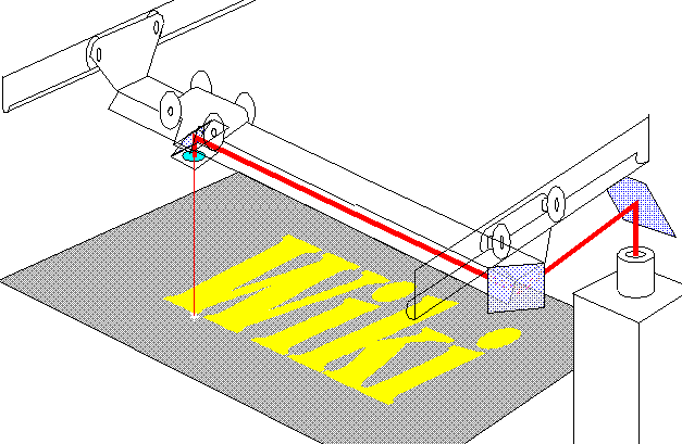 drawing of laser engravers mirror system